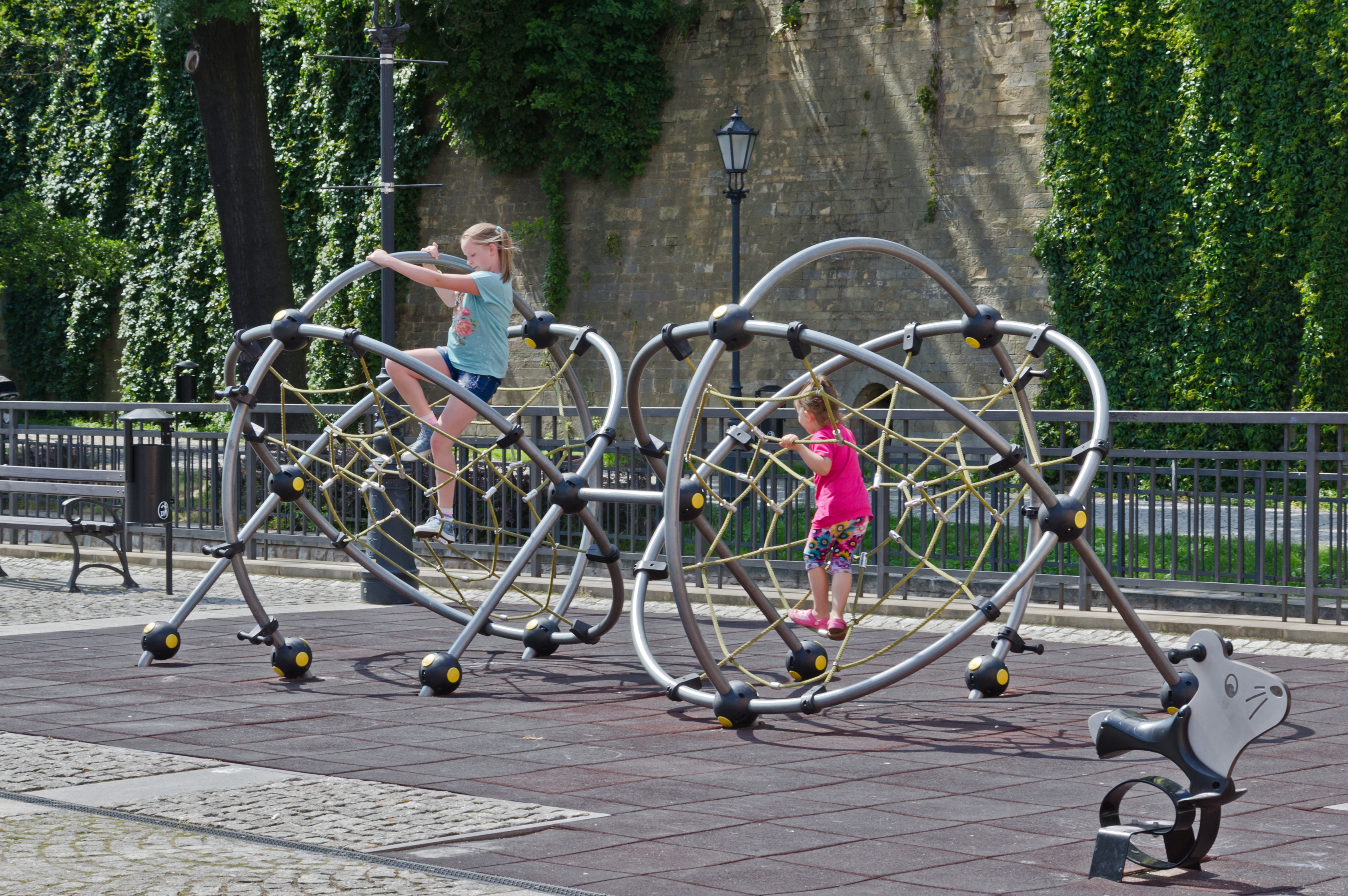 Kłodzko, Daszyńskiego Street, playground